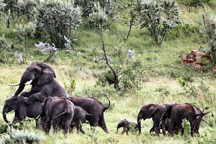 In Kenya, a bull elephant mates with a member of a female herd.